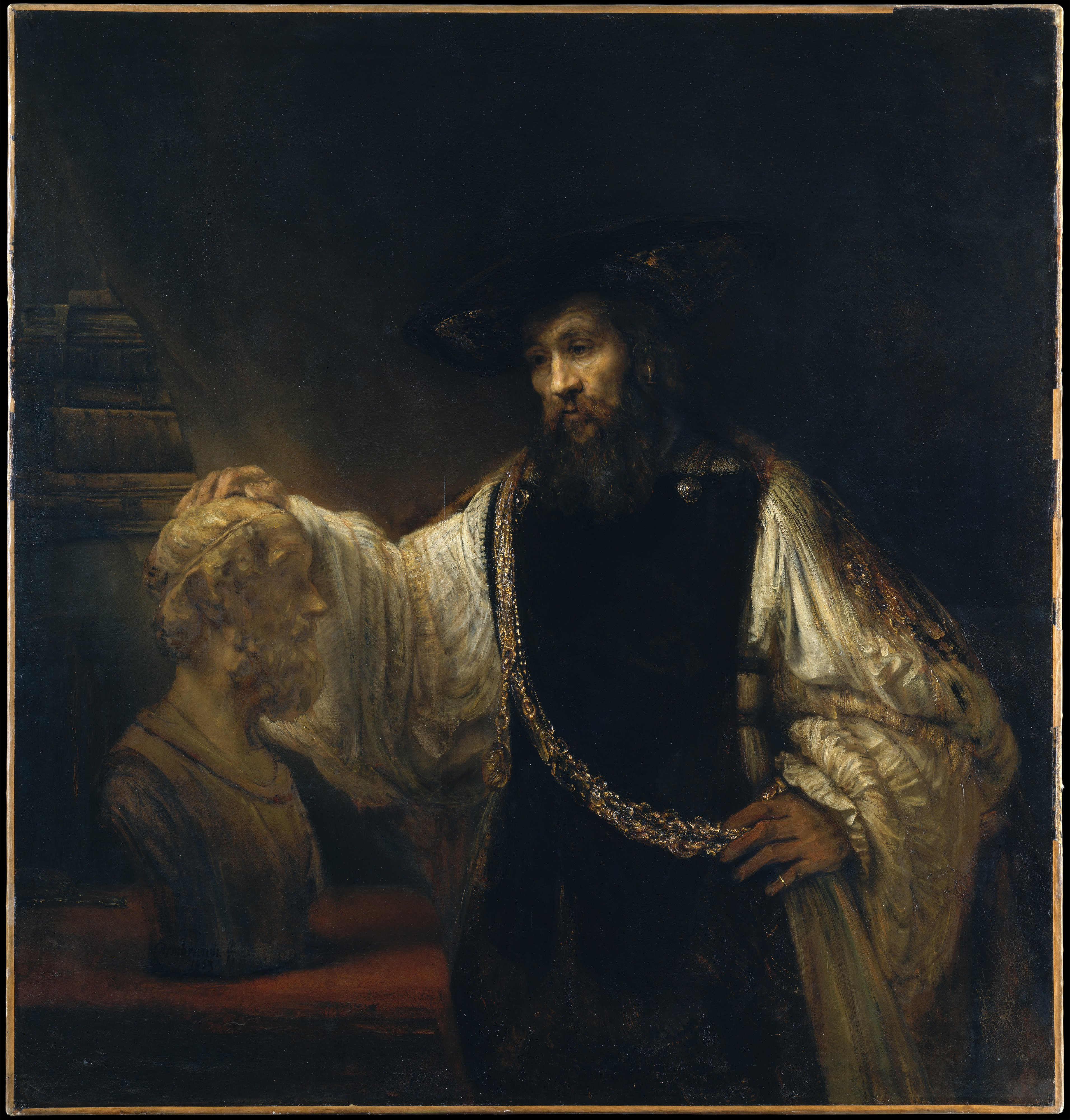 Part of a series of seven paintings, which also included Homer by Rembrandt (File:Rembrandt Harmensz. van Rijn 061.jpg), Alexander the Great by Rembrandt (lost), The Cosmographer by Guercino (lost), Dionysius of Syracuse by Matia Preti (lost), The Philosopher Archita Tarantino by Salvator Rosa (lost) and The Philosopher or Jerome by Giacinto Brandi (lost).